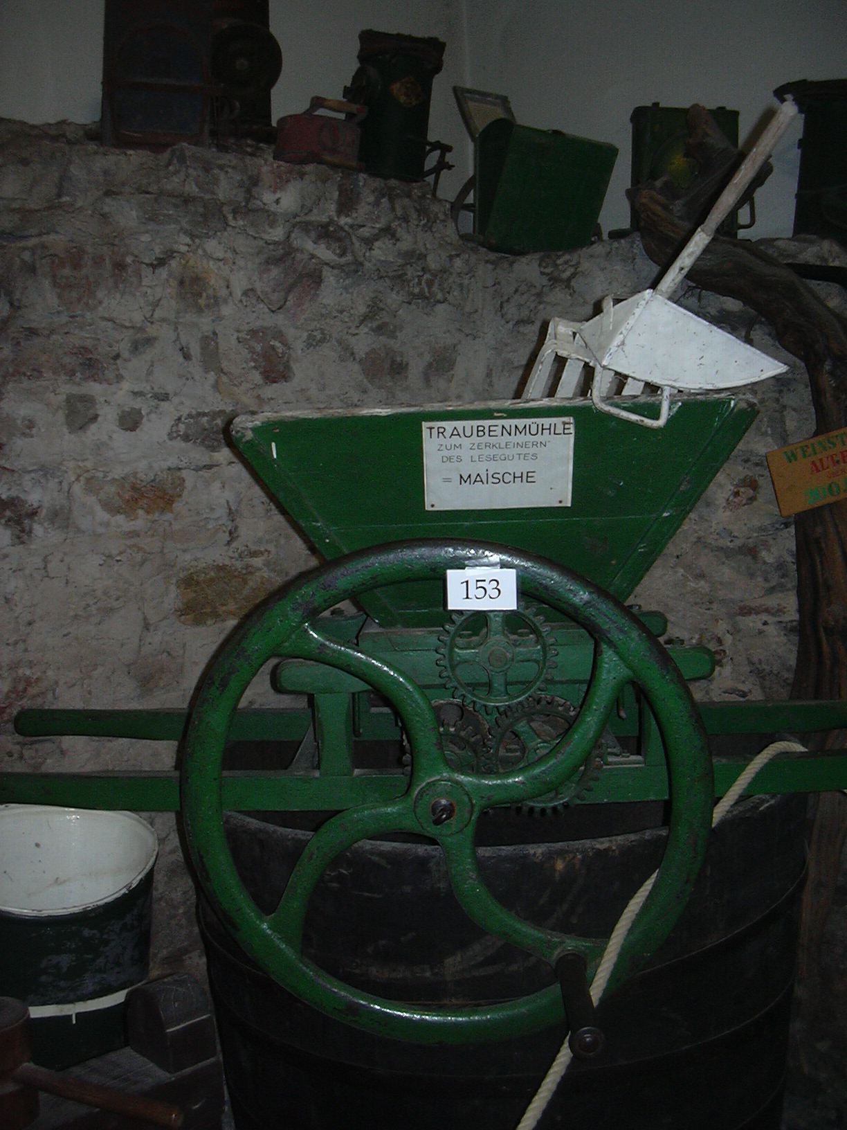 Rüdesheim Brömser Castle, historic grapes mill